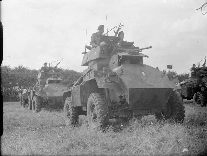 The British Army in the United Kingdom 1939-45 Humber Mk I armoured cars of the Inns of Court Regiment, 9th Armoured Division, on parade at Guisborough in Yorkshire, 19 August 1941.